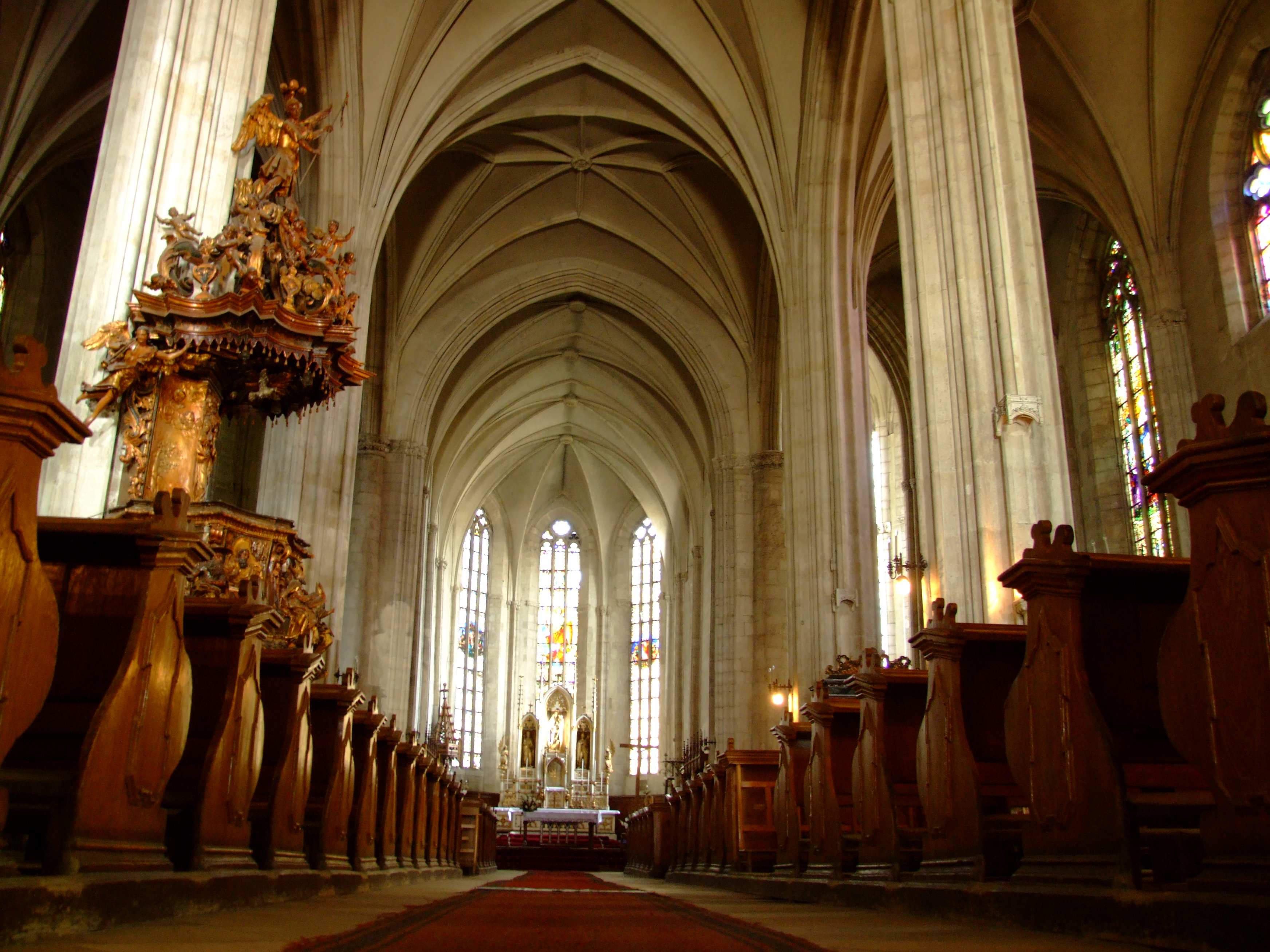 St Michael's Church in Cluj-Napoca, Romania